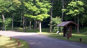 Iron County Roadside Park